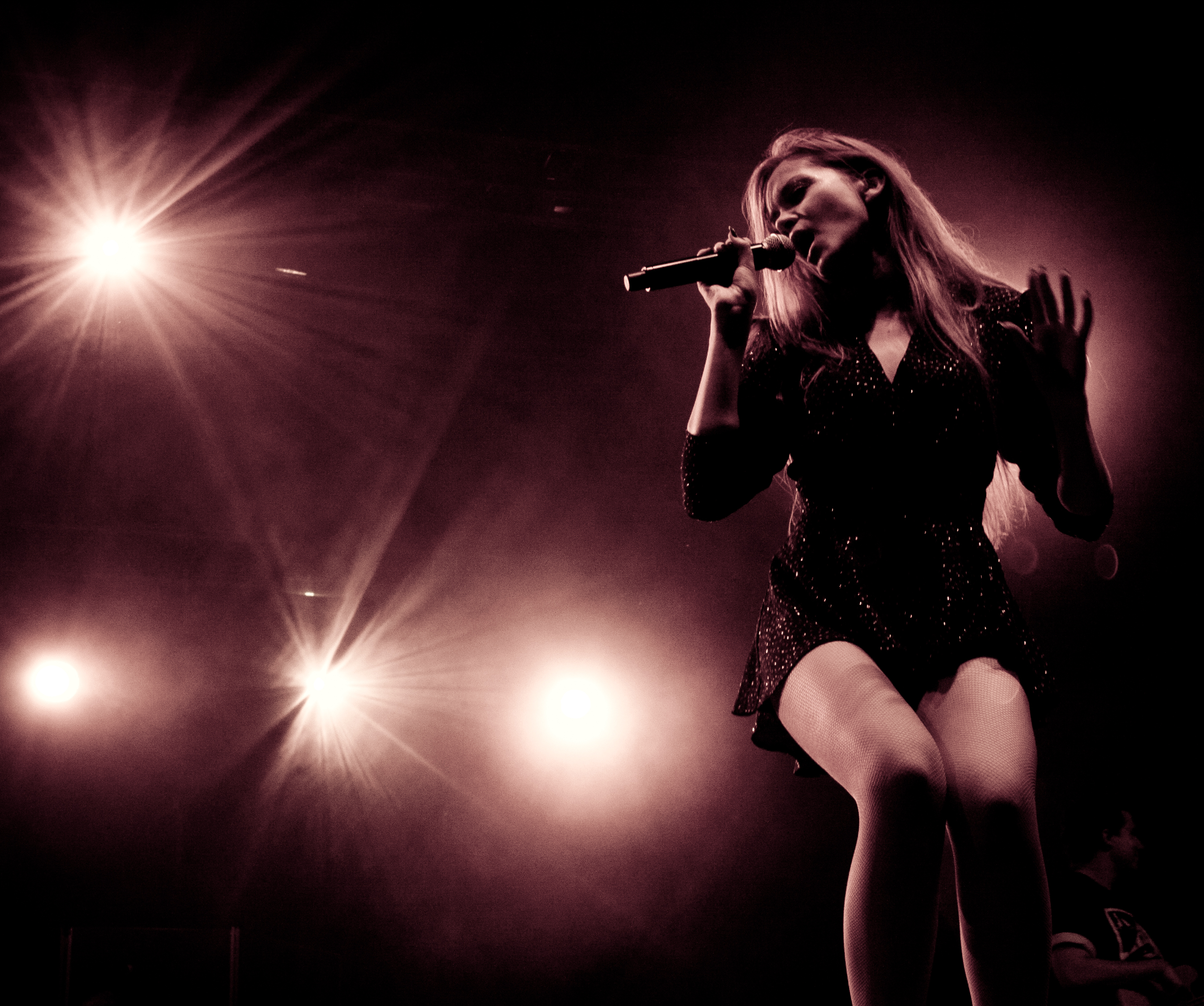 Blue Cafe on concert